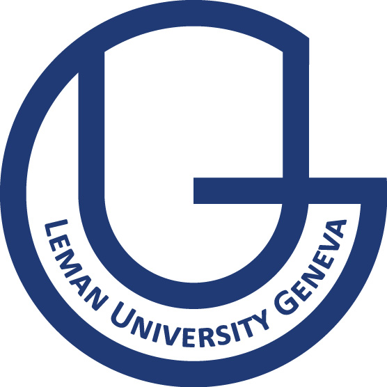 Leman university Geneva's logo